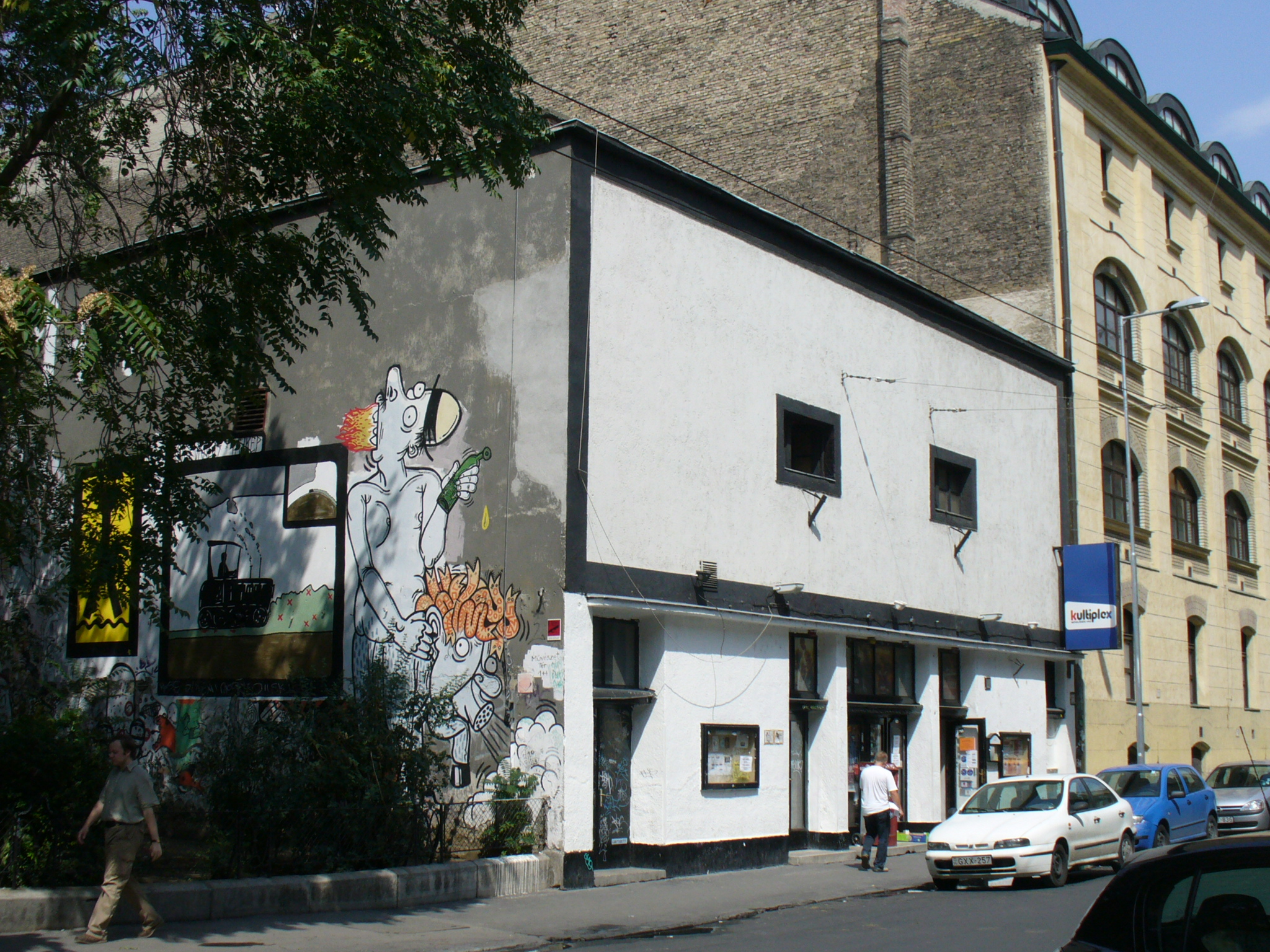 The Kultiplex community centre in Budapest